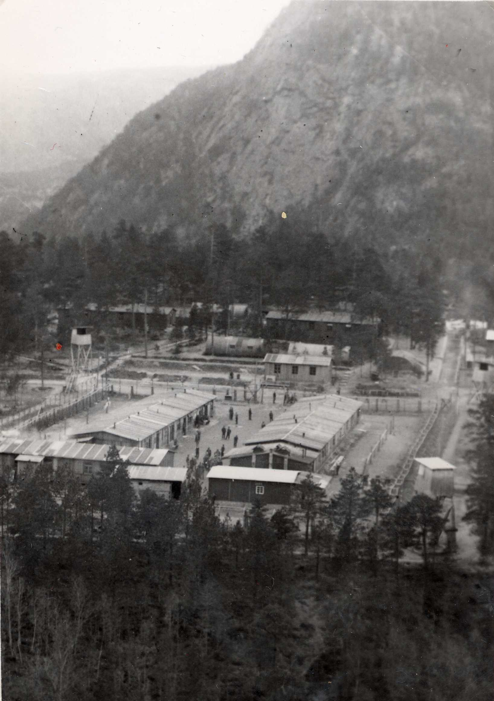 Overview Boten prisoner of war camp WW2. Saltdal, Norway.